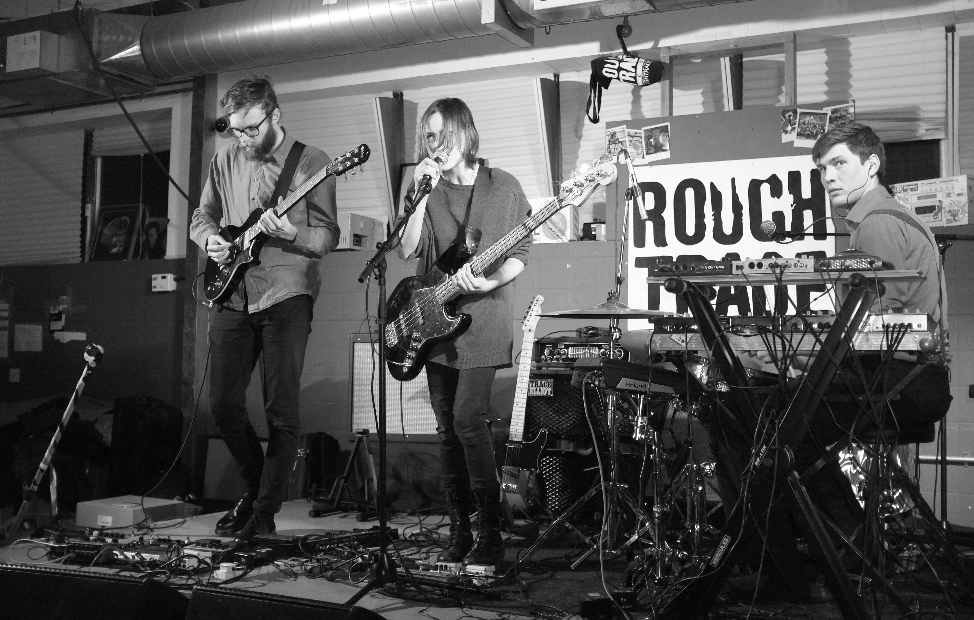 Ebsen and the witch live in concert at Rough Trade in London, on January 22nd, 2013